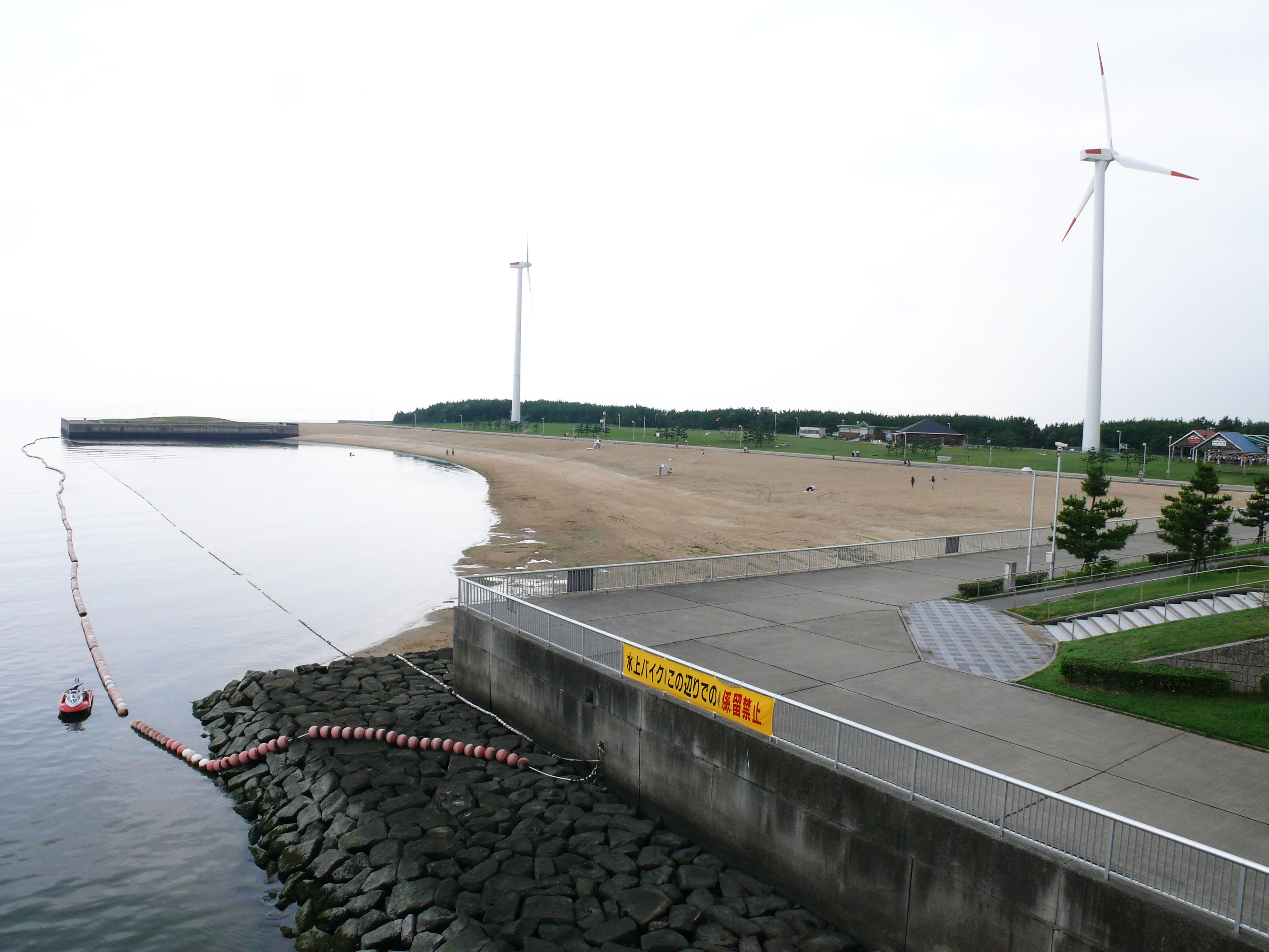 Shinmaiko Marine Park of Blue San Beach.